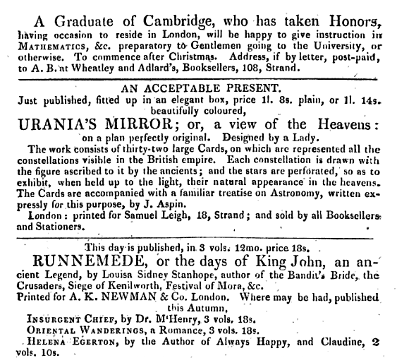 An advertisement for Urania's Mirror, shown in context